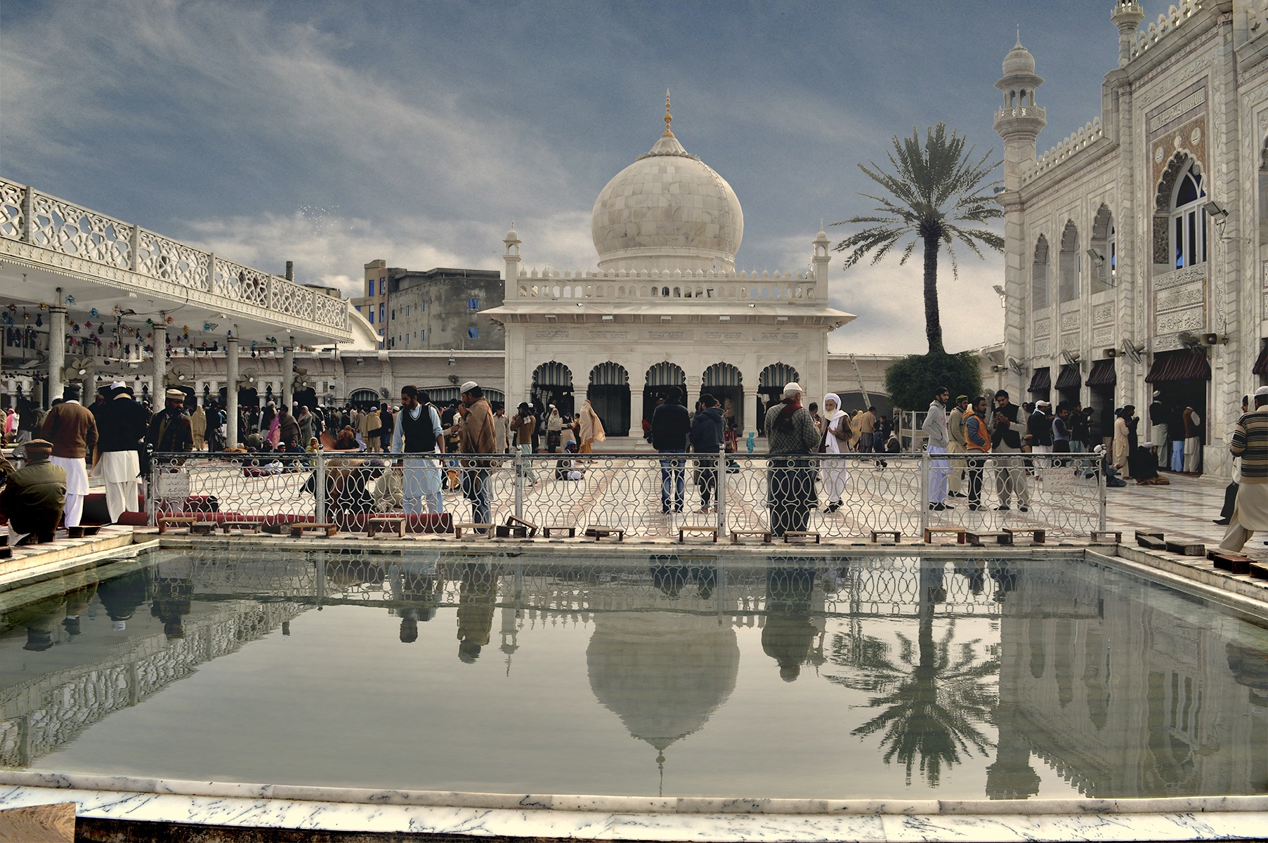 Mausoleum of Meher Ali Shah This is a photo of a monument in Pakistan identified as the ICT-1